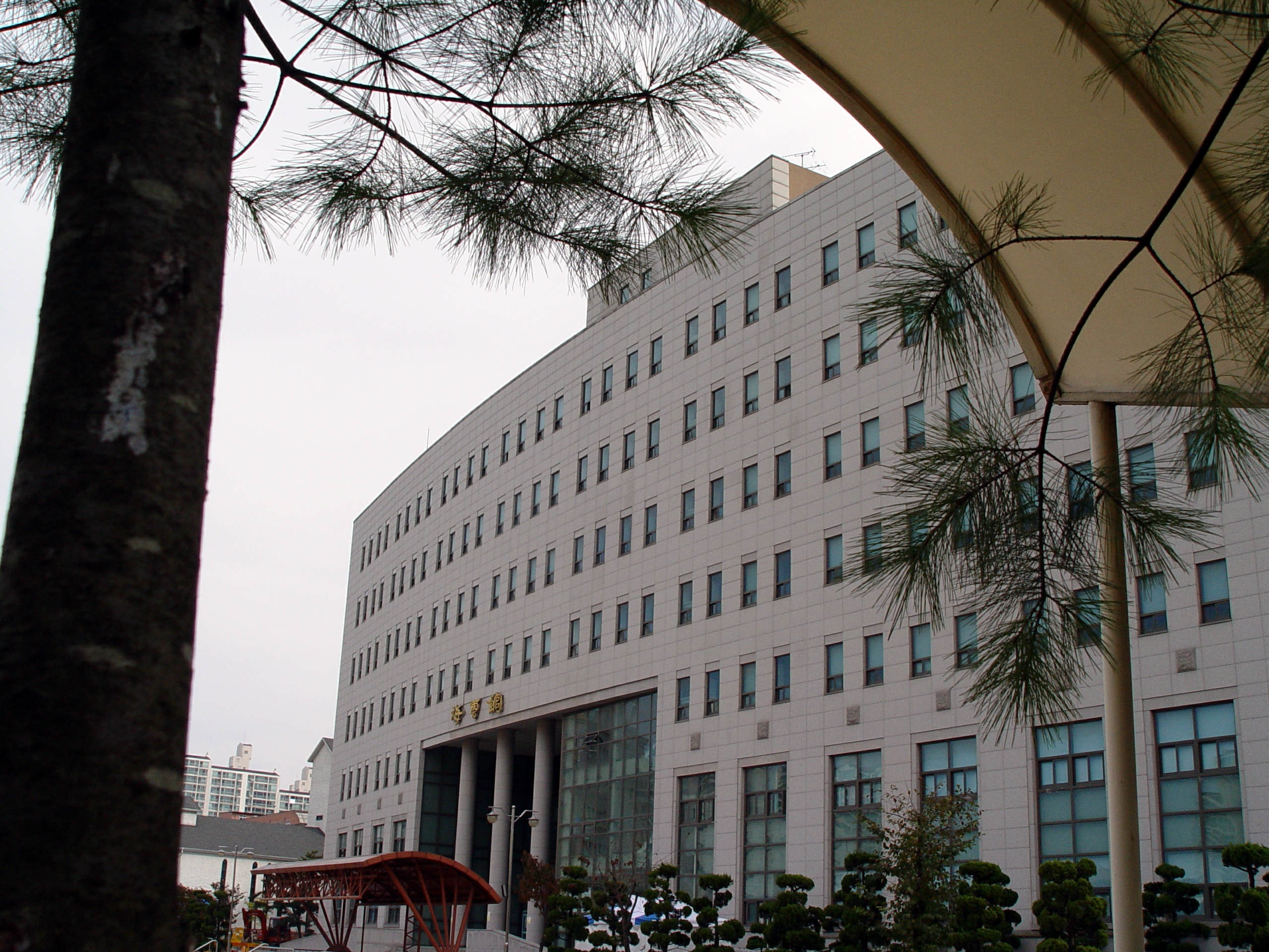 Dongnam Health College, Suwon, South Korea